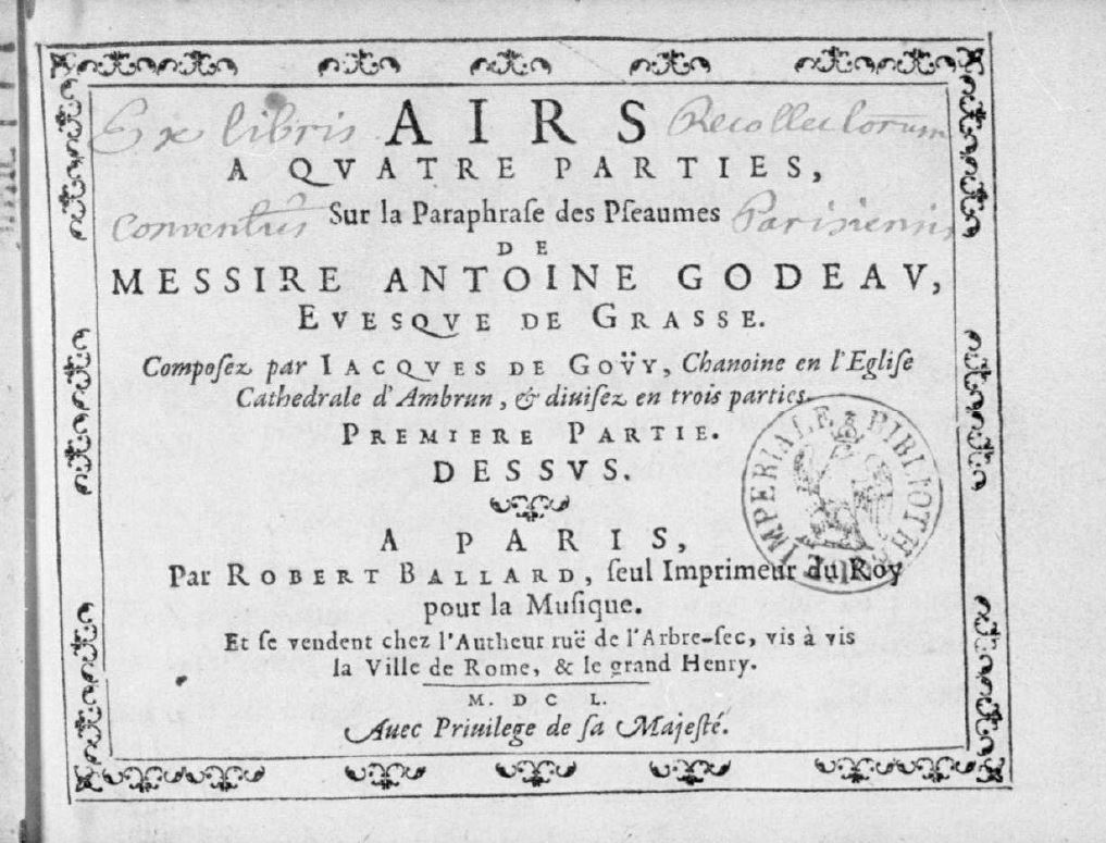 Title page of Gouy's Airs sur la paraphrase de Godeau (Paris, 1650).